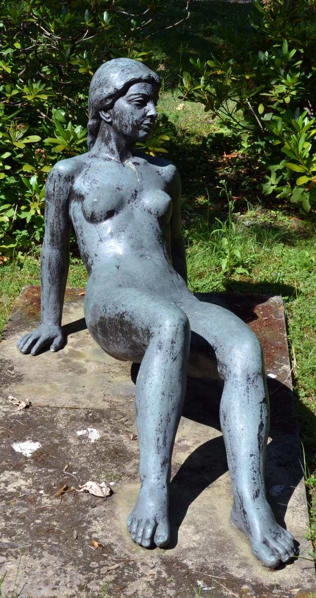 On the beach, sculpture by the Czech sculptor Břetislav Benda